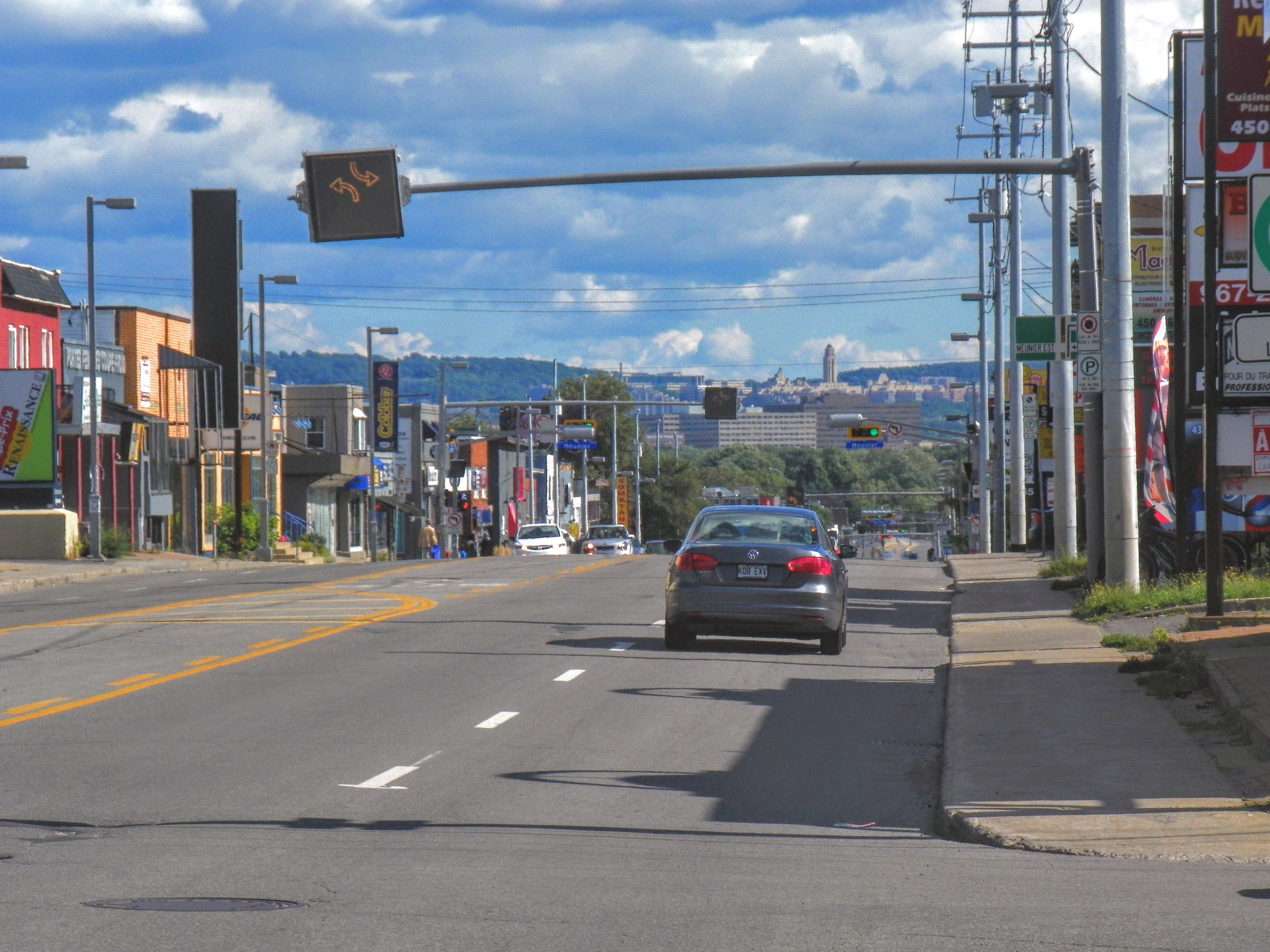 Laurentides boulevard near Proulx street in Pont-Viau neighbourhood, Laval, Quebec.